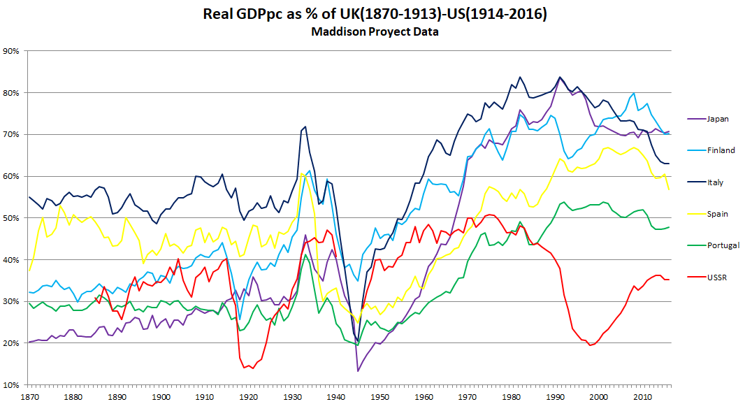 GDP per capita of the USSR compared to similar countries